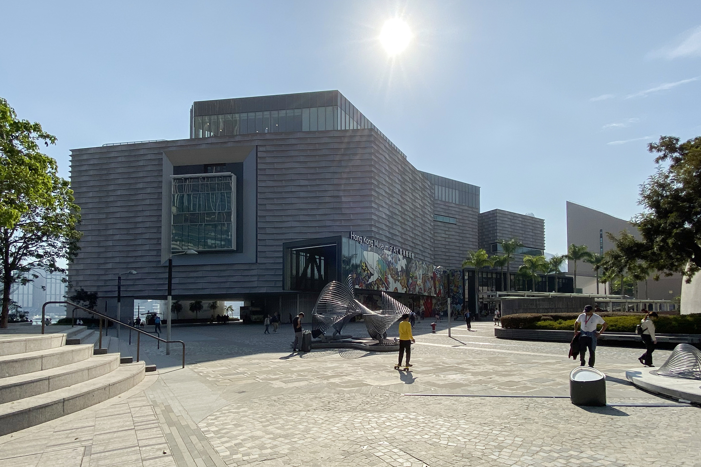 Hong Kong Museum of Art